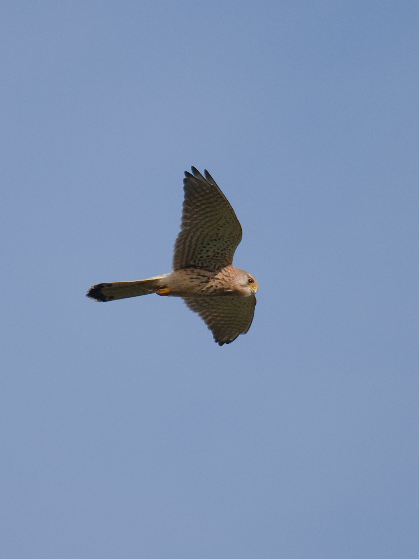 Common Kestrel